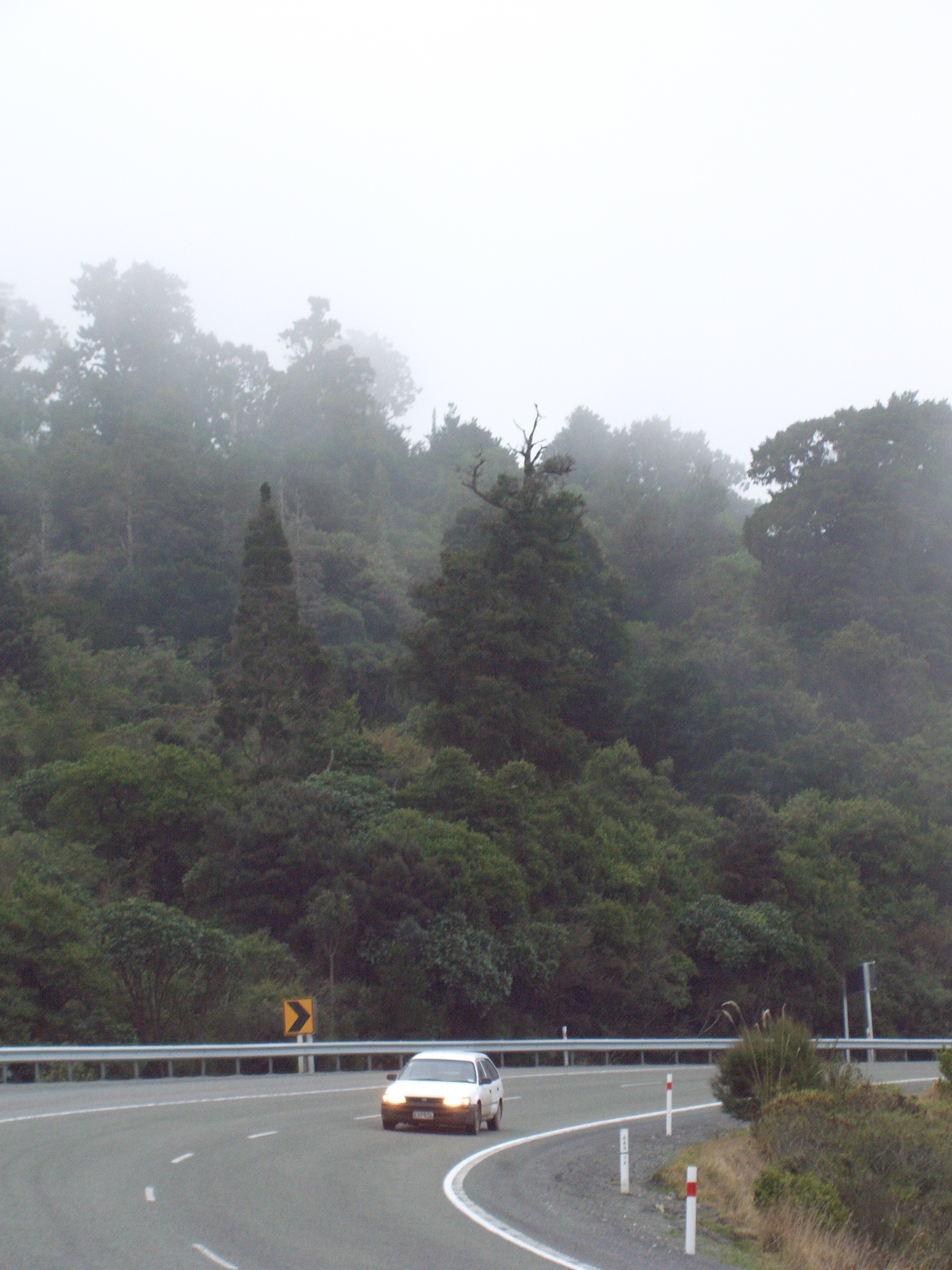 Leith Saddle near Dunedin, New Zealand under characteristic cloud cover: a strategic point where New Zealand's State Highway 1 traverses a fragile alpine forest dominated by Libocedrus bidwillii(visible on the skyline). Proposed road works to straighten a dangerous corner here conflict with conservation values.